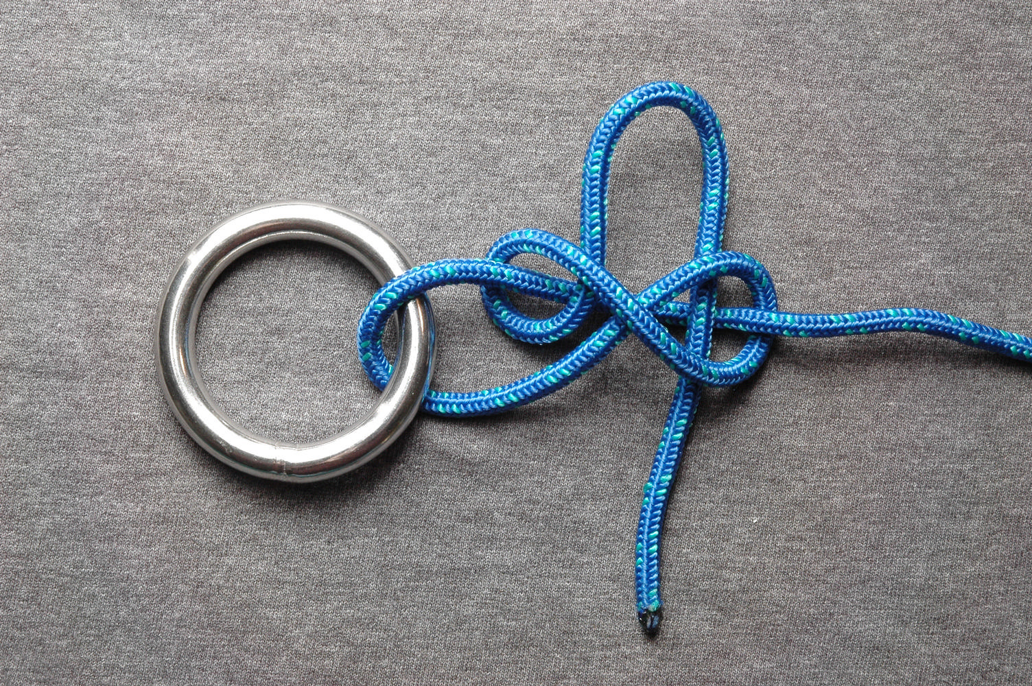 Untightened Slipped Buntline hitch (ABOK #1712)